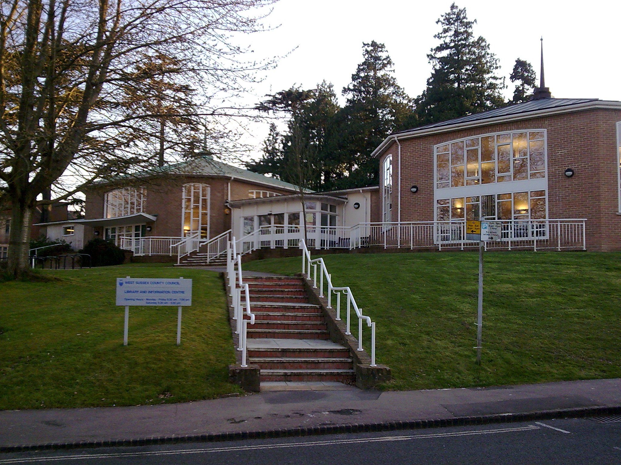 Haywards Heath Library